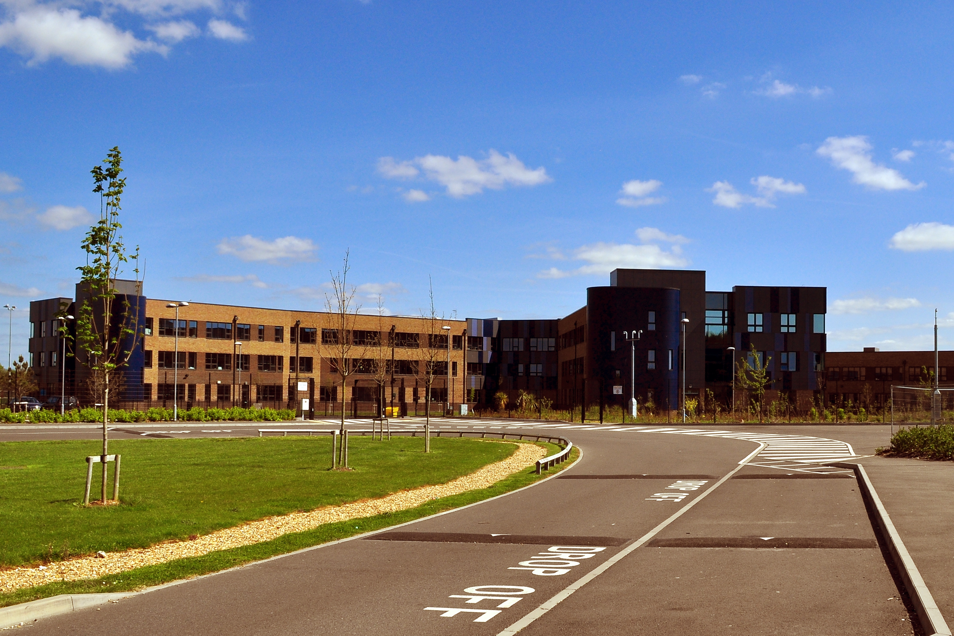 View of Littlehampton Academy from Fitzalan Road